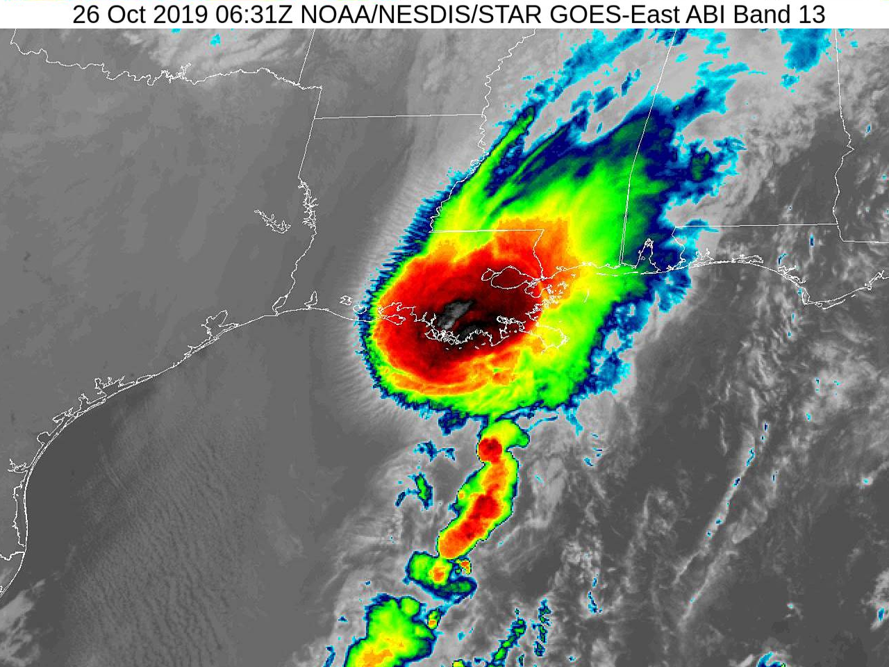 Infrared satellite imagery of the remnants of Olga on approach to the central Louisiana coastline, taken at 06:31 UTC on October 26, 2019.